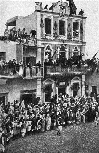 Celebrations in Municipality Square in Benghazi in late 19th century.